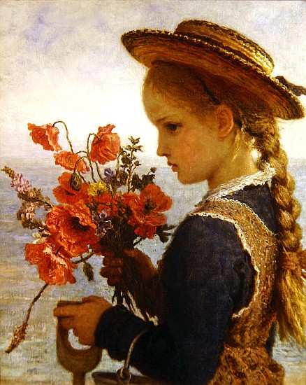 Mädchen mit Mohnblüten